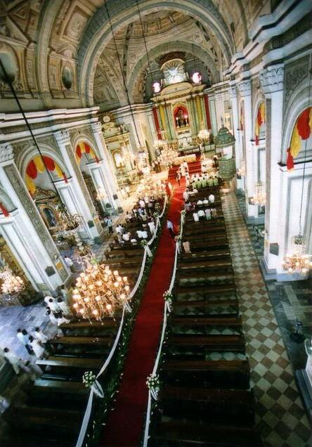 Joel Natividad